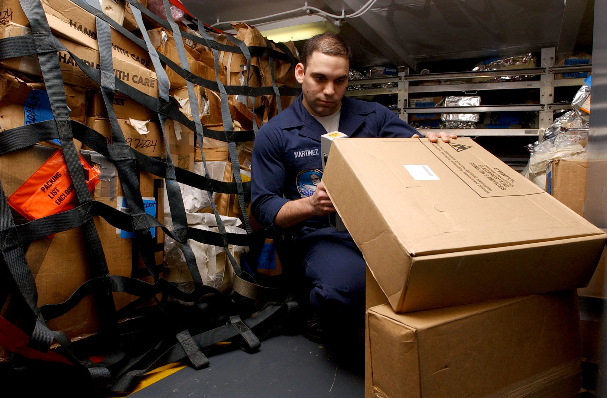 Mediterranean Sea (Apr. 15, 2003) -- Airman Radames Martinez inventories surface depot level repairable parts in the Repairable Asset Management Shop aboard USS Harry S. Truman (CVN 75). Truman and Carrier Air Wing Three (CVW-3) are currently on deployment conducting missions in support of Operation Iraqi Freedom. Operation Iraqi Freedom is the multinational coalition effort to liberate the Iraqi people, eliminate Iraq's weapons of mass destruction and end the regime of Saddam Hussein. U.S. Navy photo by Photographer's Mate 3rd Class Danny Ewing Jr. (RELEASED)